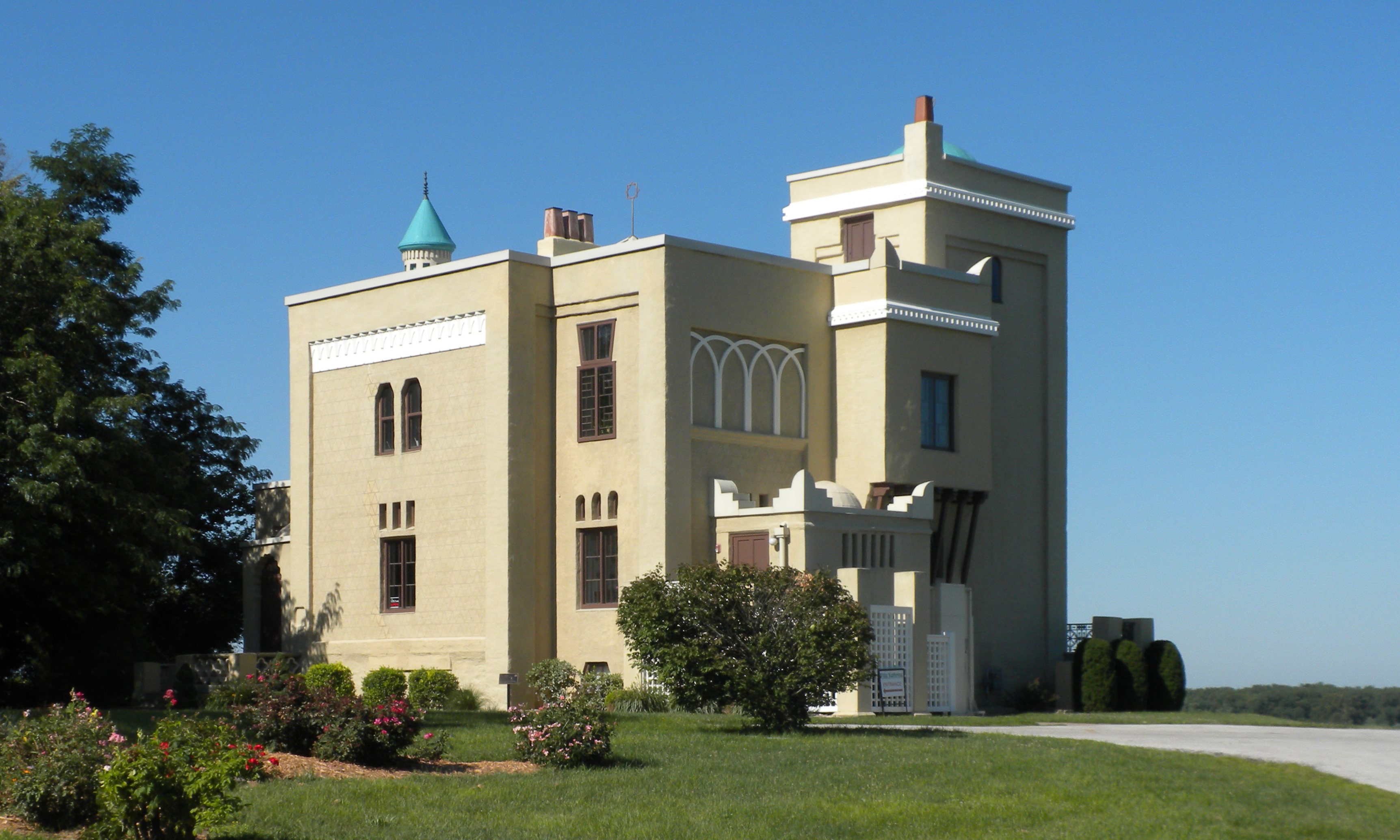 Villa de Kathrine, on the bluffs of the Mississippi River, in Quincy, IL. On NRHP since December 8, 1978. At 532 S. 3rd, Quincy. Built about 1900 in a Moorish style. Beautiful little jewel, inside is even nicer, as is the view. Locals call it Villa Kathrine, without the "de"